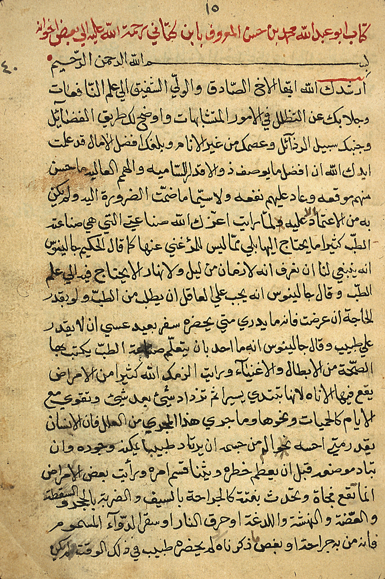 A page of a transcription of The Treatment of Dangerous Diseases Appearing Superficially on the Body by Abī ‘Abd Allāh Muḥammad ibn ḥasan Ibn al-Kattānī (d. 1029/420) نسخة مخطوطة لمعالجة الامراض الخطرة البادية على البدن من خارج ابو عبد الله محمد ابن حسن المعروف بابن الكتانى